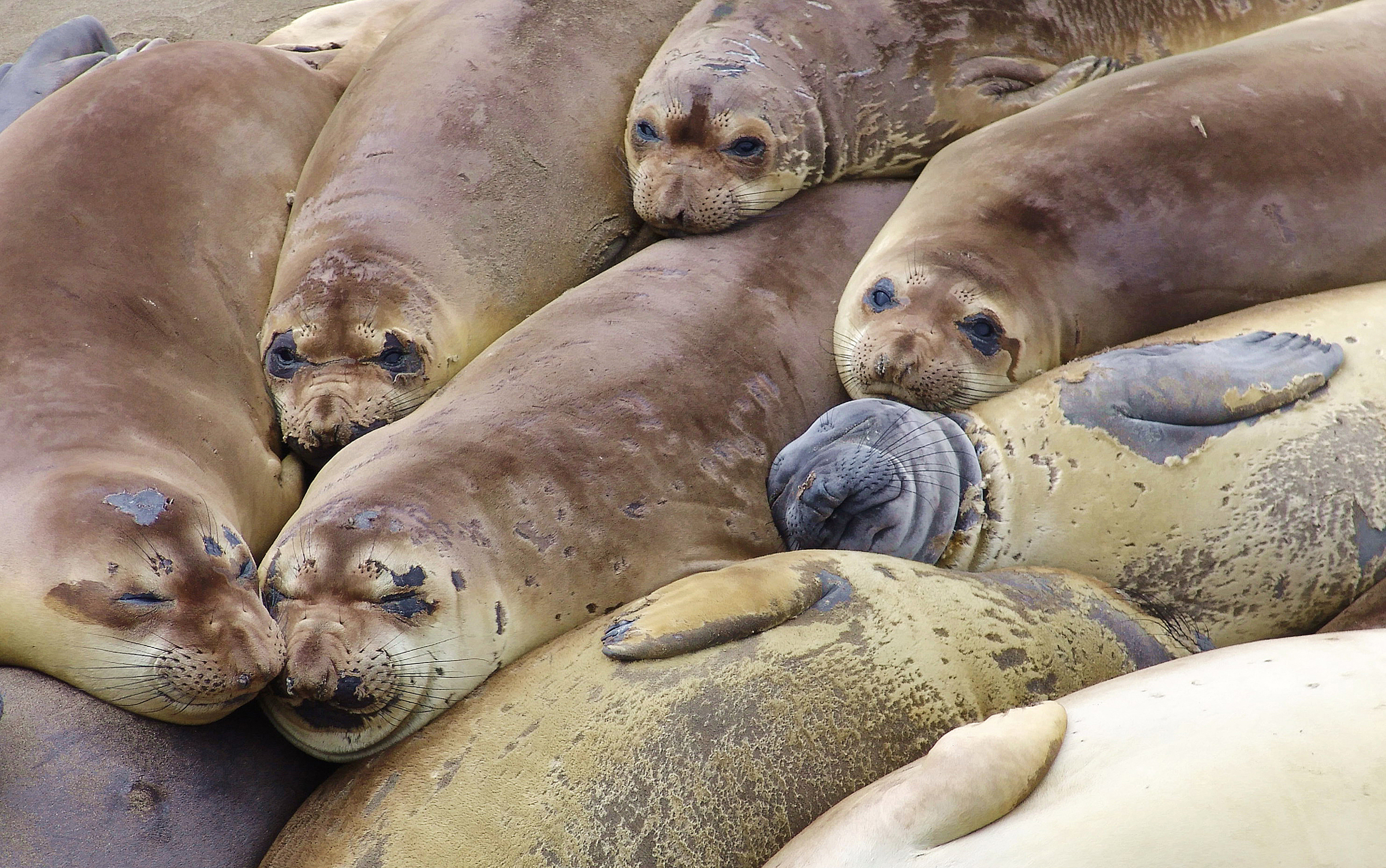 Elephant seal colony, Piedras Blancas beach, near San Simeon, California